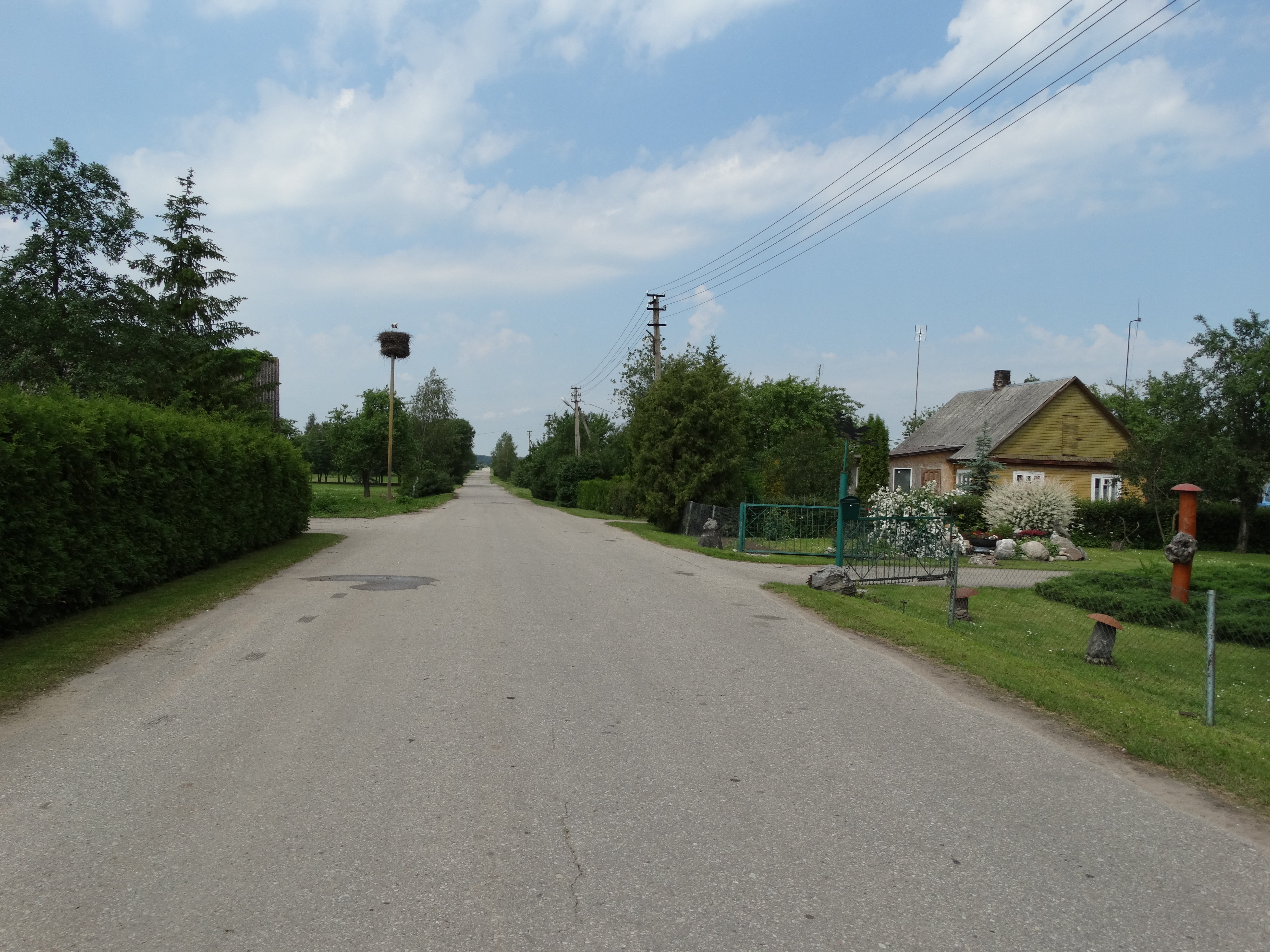 Atkočiai, Ukmergė District, Lithuania